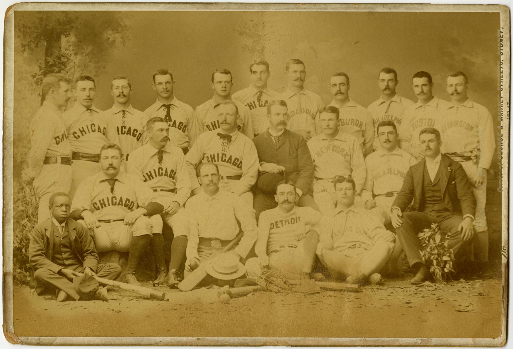 Spalding's touring Chicago White Sox side from the 1888 world tour.